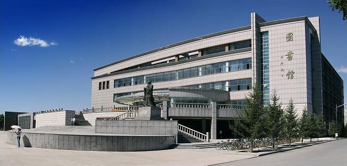 Jilin Normal University Library, the university is in Siping City, Jilin Province, China.